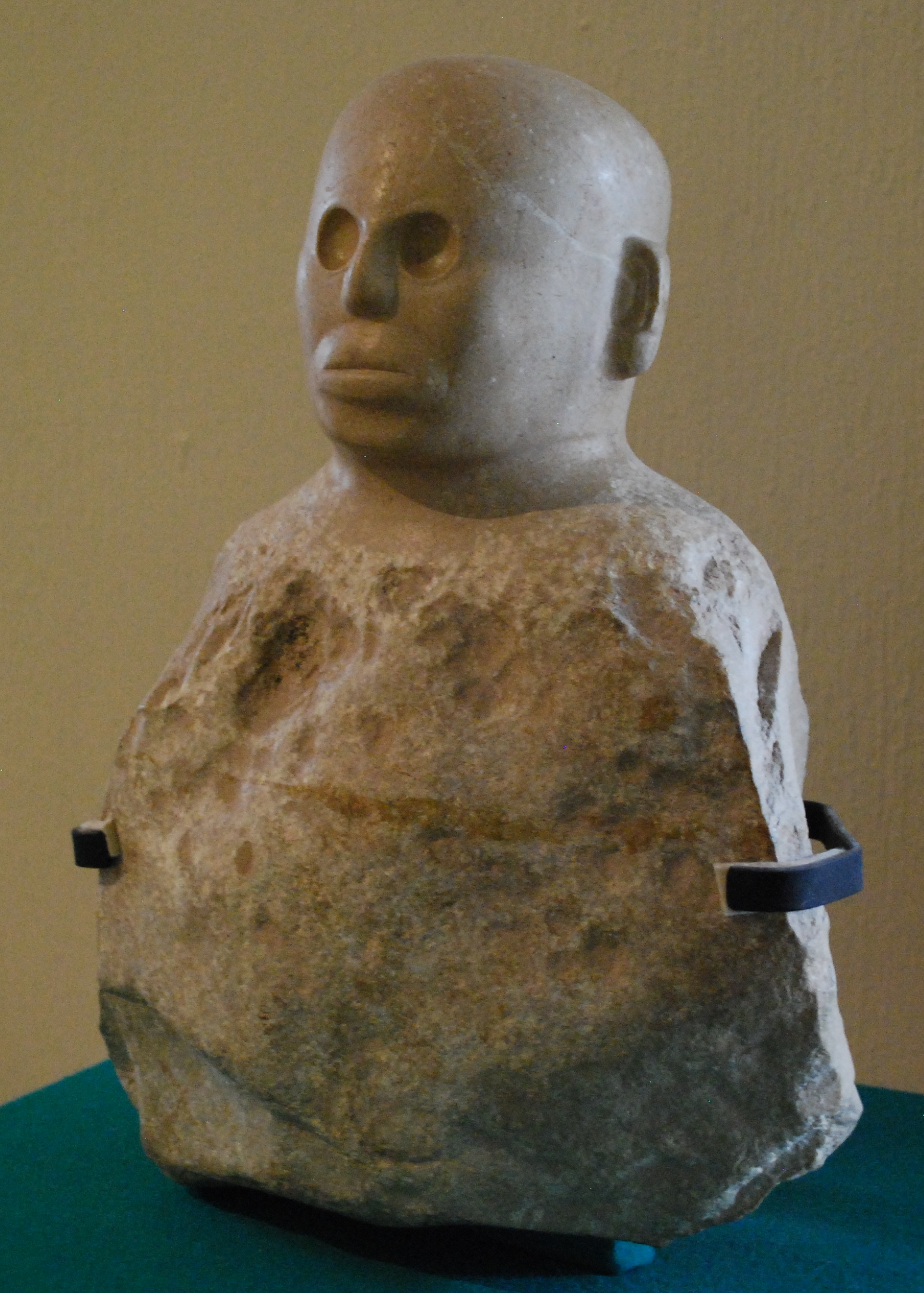 Unfinished sculpture from Suchiapa, Chiapas (600-800CE) on display at the Regional Museum in Tuxtla Gutierrez, Chiapas, Mexico